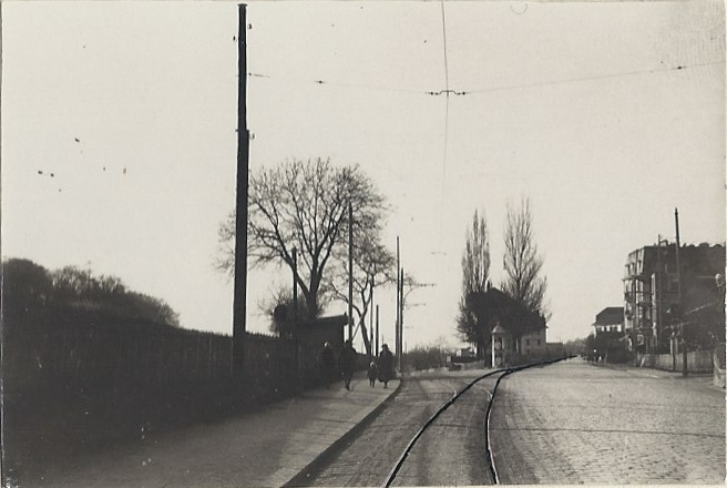 Montétan : Railroad switch between the LEB (right) and the TL (left)